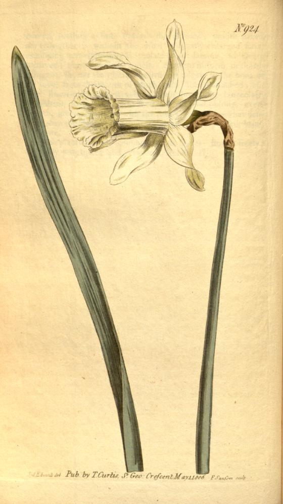 Illustration of Narcissus moschatus (Narcissus pseudonarcissus subsp. pallidiflorus)